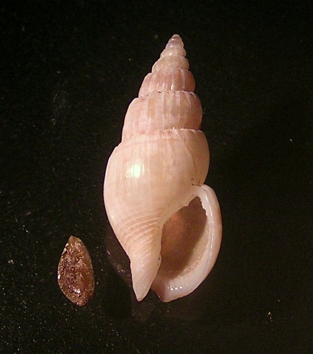 Antillophos laeve (Kuroda, T. & T. Habe in Habe, T., 1961), a true whelk from the family Buccinidae; Philippines